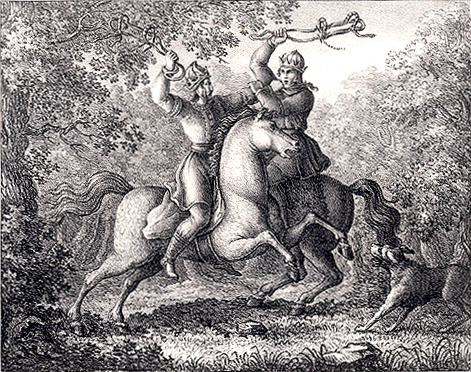 Captioned as "Alrik och Erik döda hvarandra med sina hästbetsel", according to the source page. Alrik and Erik kill eachother with their horse bridles. Original image size approximately 17 x 22 cm.